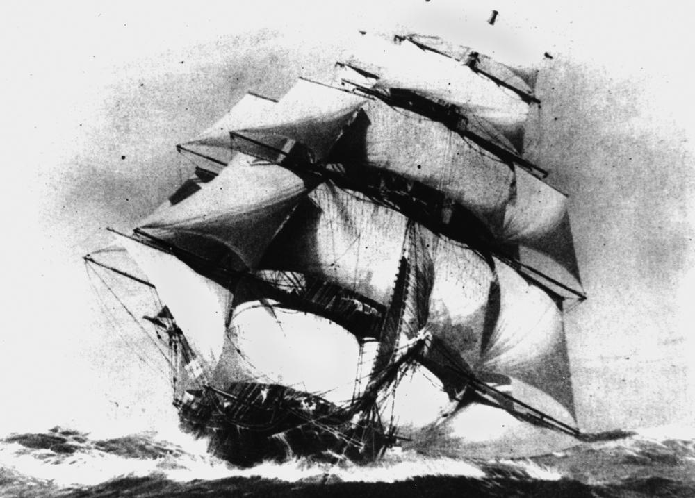 The Flying Cloud made many fast voyages from Britain to Moreton Bay with immigrants (from an original painting by J. Spurling). Publisher: John Oxley Library, State Library of Queensland Description: Digital format: image/jpeg ; Original format: copy print : b&w Identifier: Image number: 12815